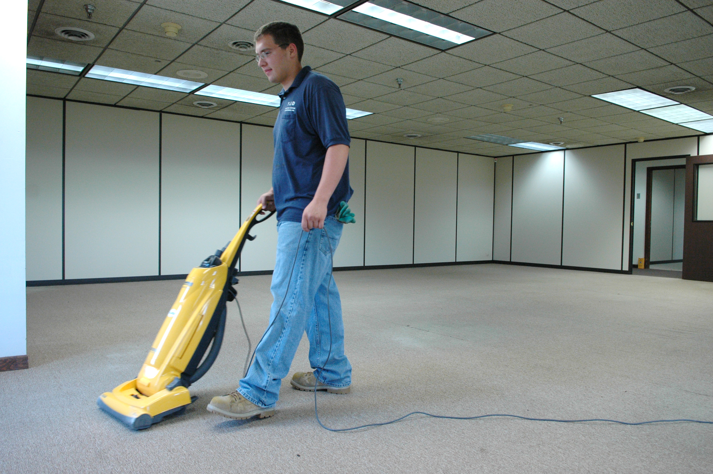 Findlay, Ohio, August 29, 2007 -- A contractor vacuums one of the offices in the building FEMA has chosen for its Ohio Joint Field Office (JFO). FEMA sets up a JFO near the site of the disaster. Mark Wolfe/FEMA